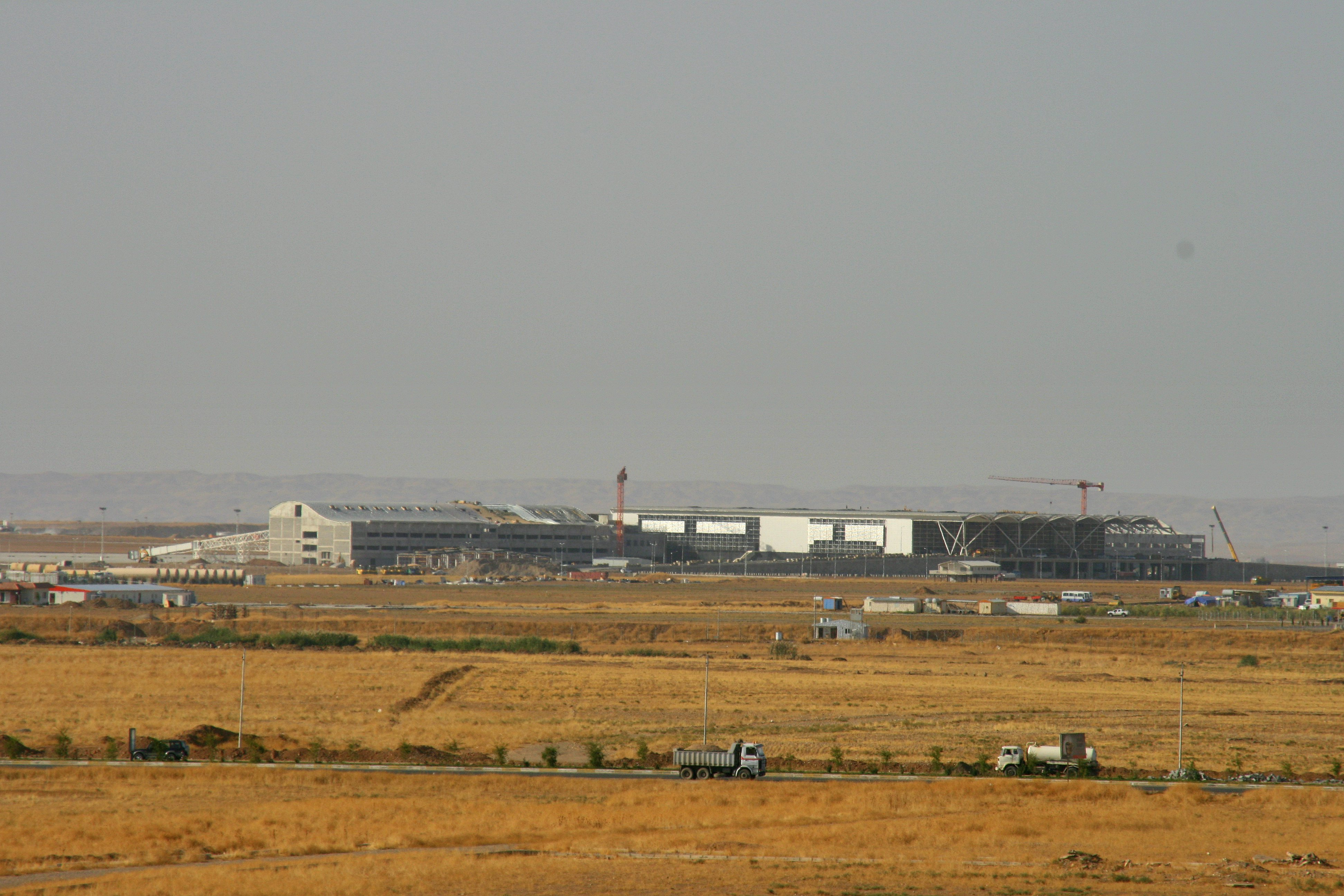 Erbil International Airport